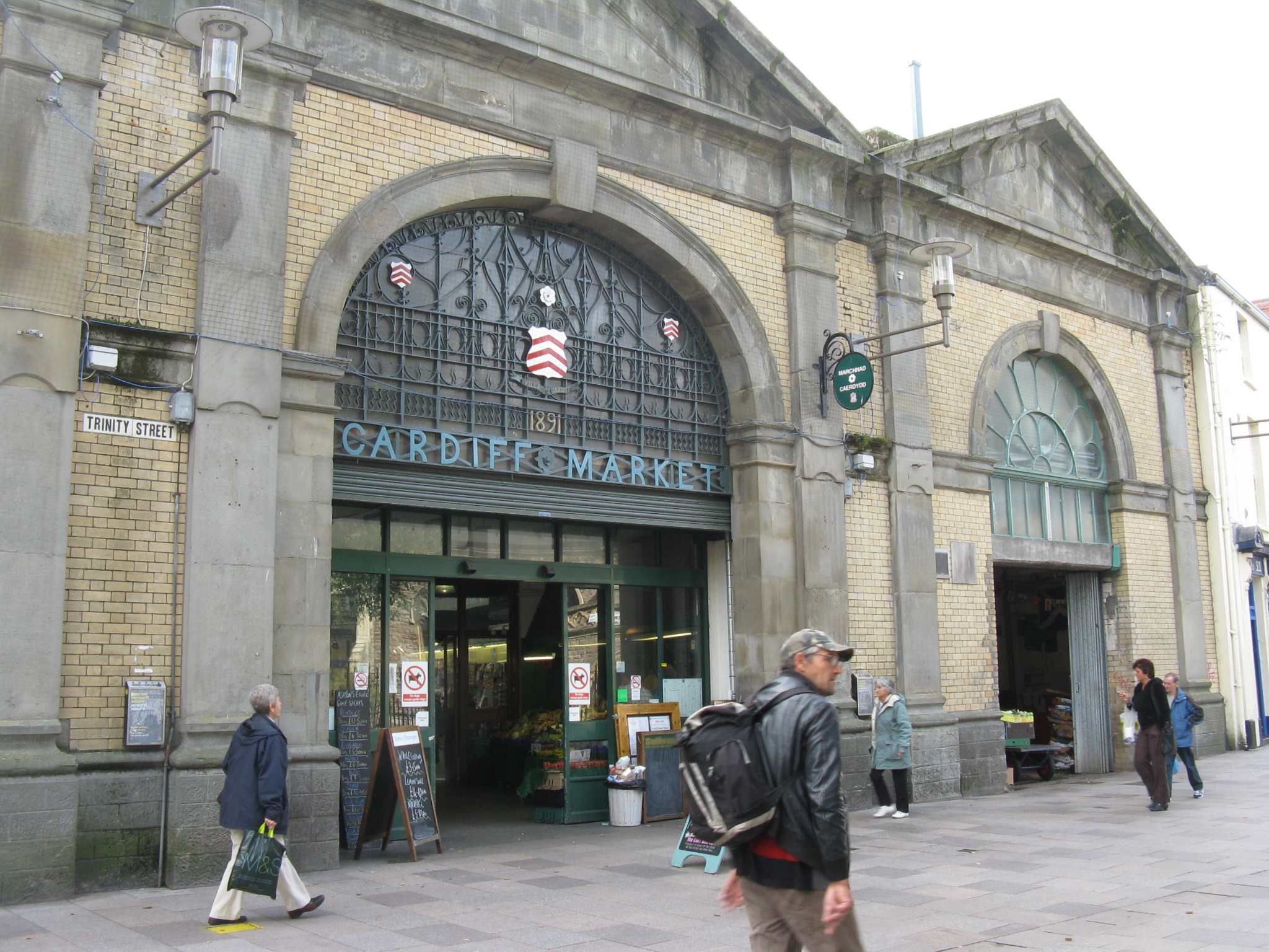 Cardiff Market, Cardiff, Wales